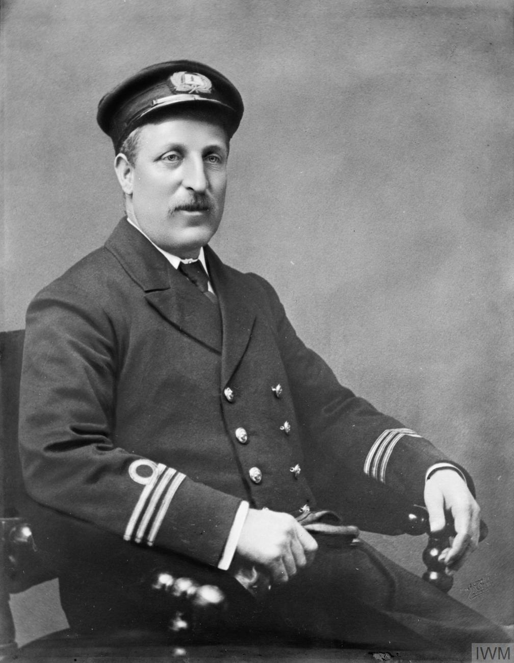 IWM caption : "A half-length studio portrait of Captain Charles Fryatt, Captain of the SS BRUSSELS. Captain Charles Fryatt was an employee of the Great Eastern Railway and captained the SS BRUSSELS sailing routes between Southampton and Rotterdam. On 28 March 1915, he attempted to ram and sink the German submarine U33. After this, and several other alleged rammings of German submarines, Captain Fryatt was captured on 23 June 1916 by the crews of the German torpedo boats G101 and G102. He was tried and executed by firing squad on 27 July 1916 and buried in Bruges. His body was later exhumed and brought back to Britain."